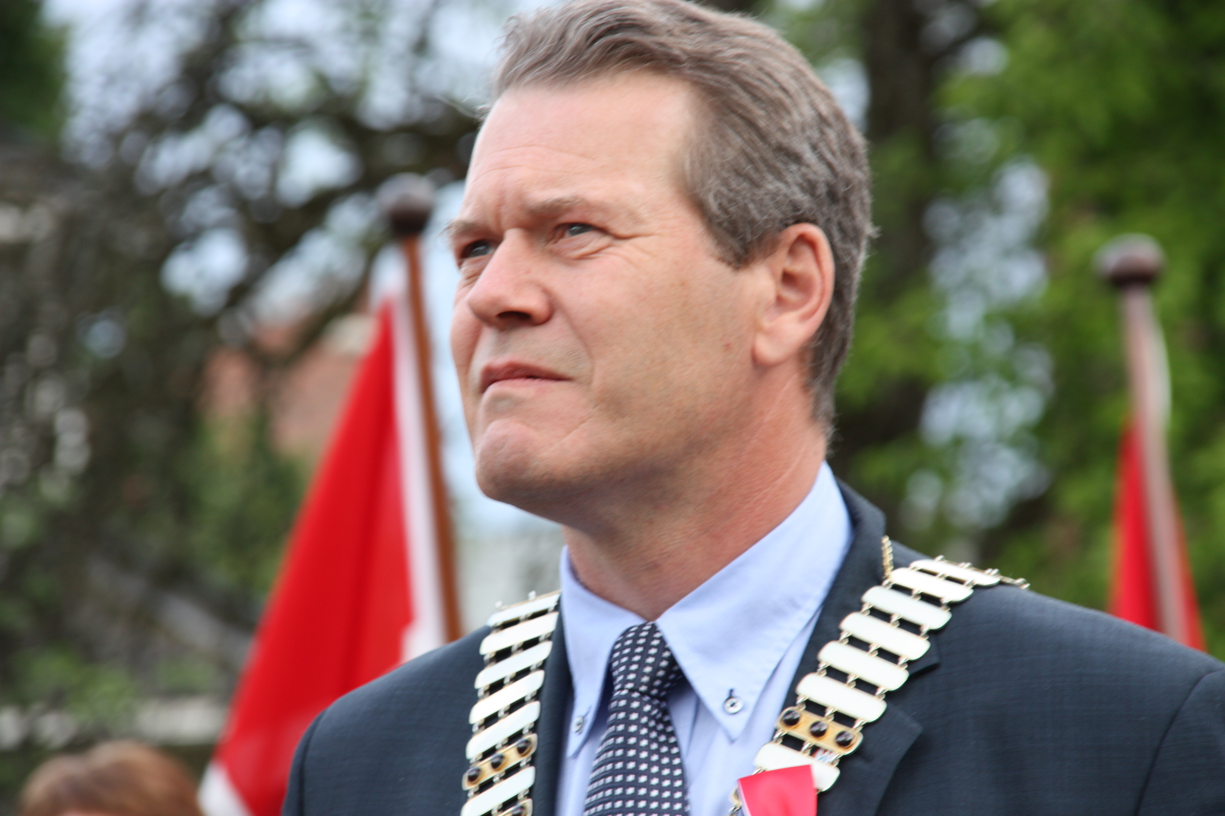 Alf Johan Svele at the 17th of May 2011